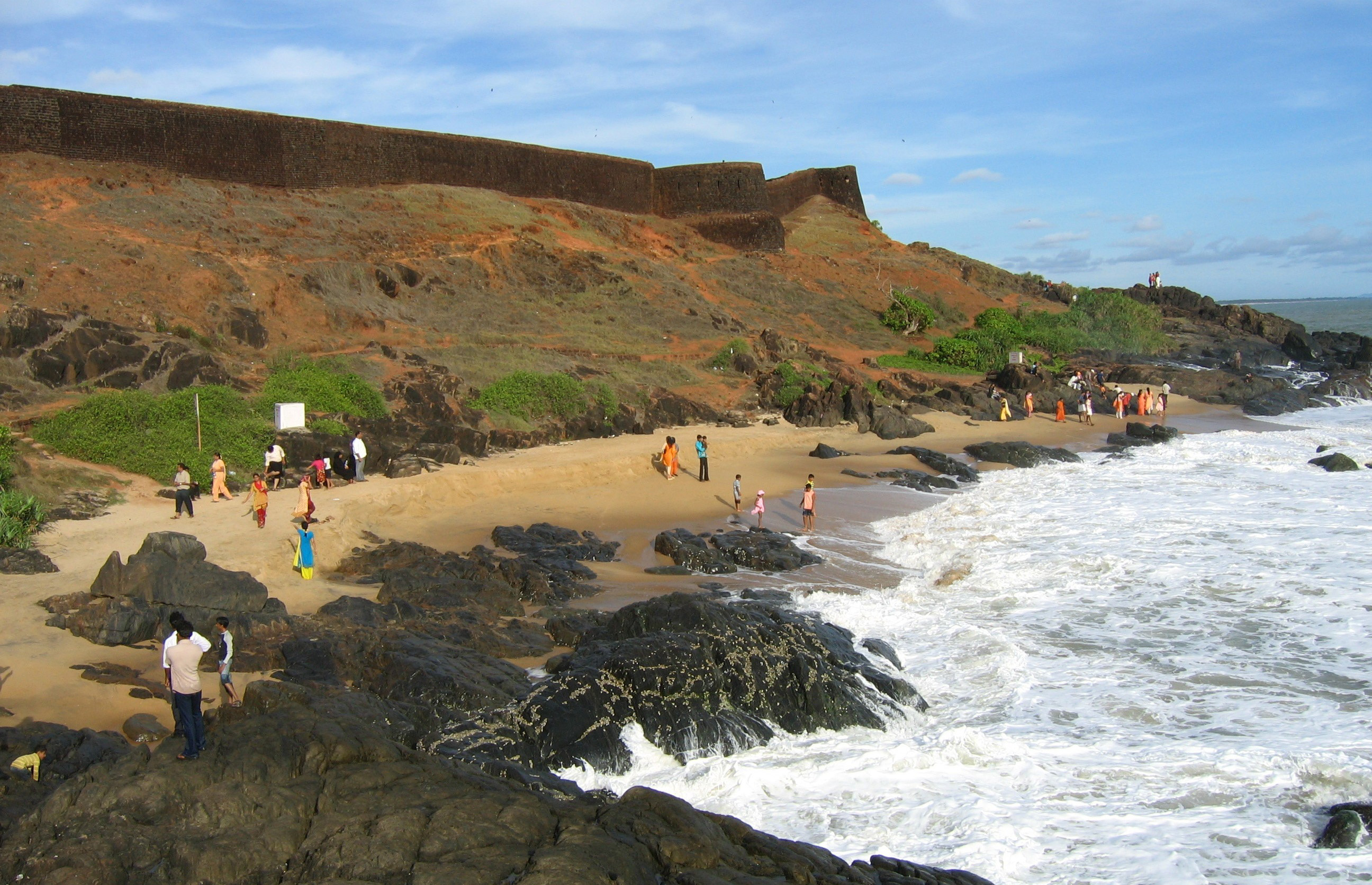 Bakel Fort Beach Kasaragod